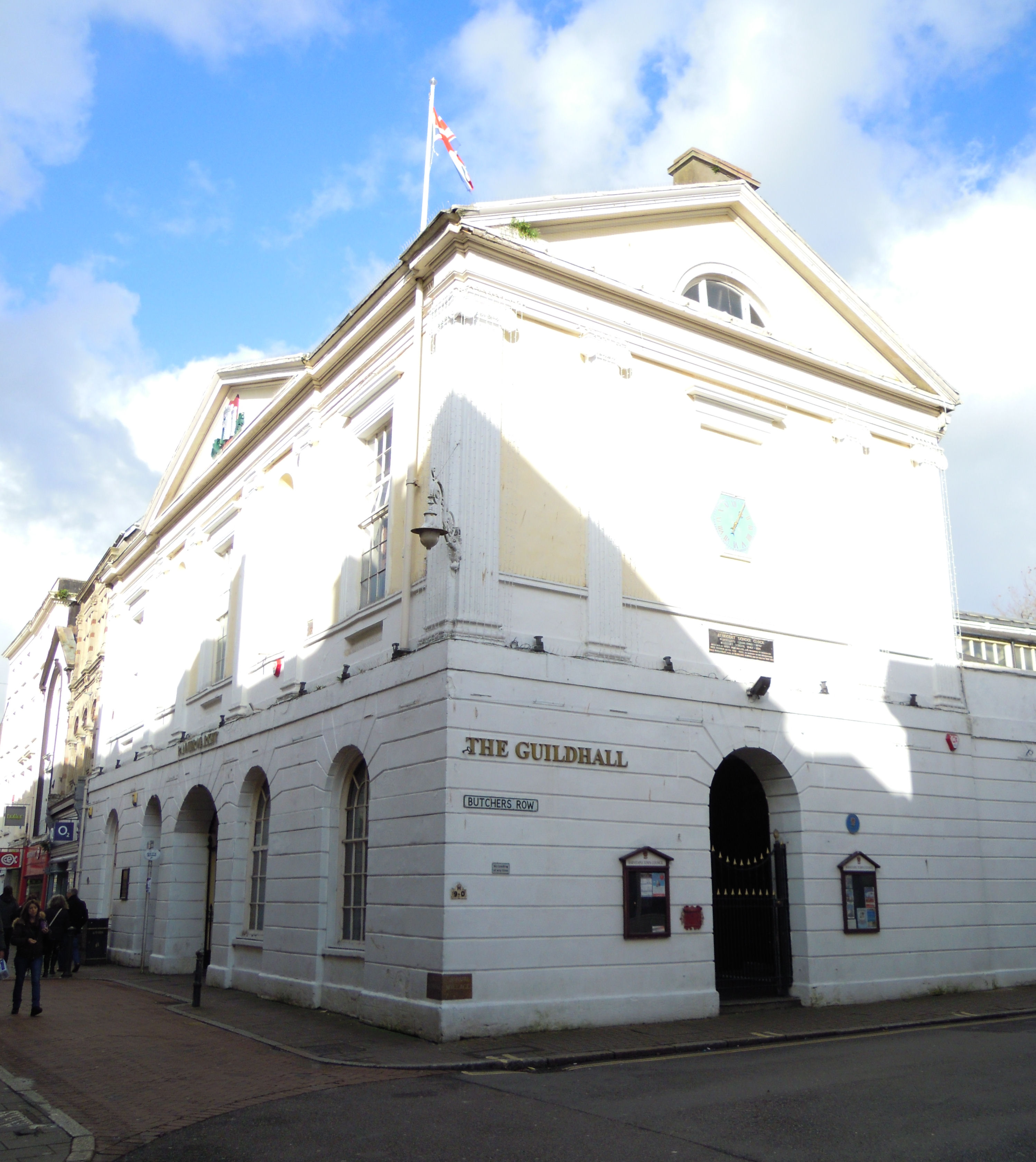 The Guildhall and Pannier Market at Barnstaple in Devon.